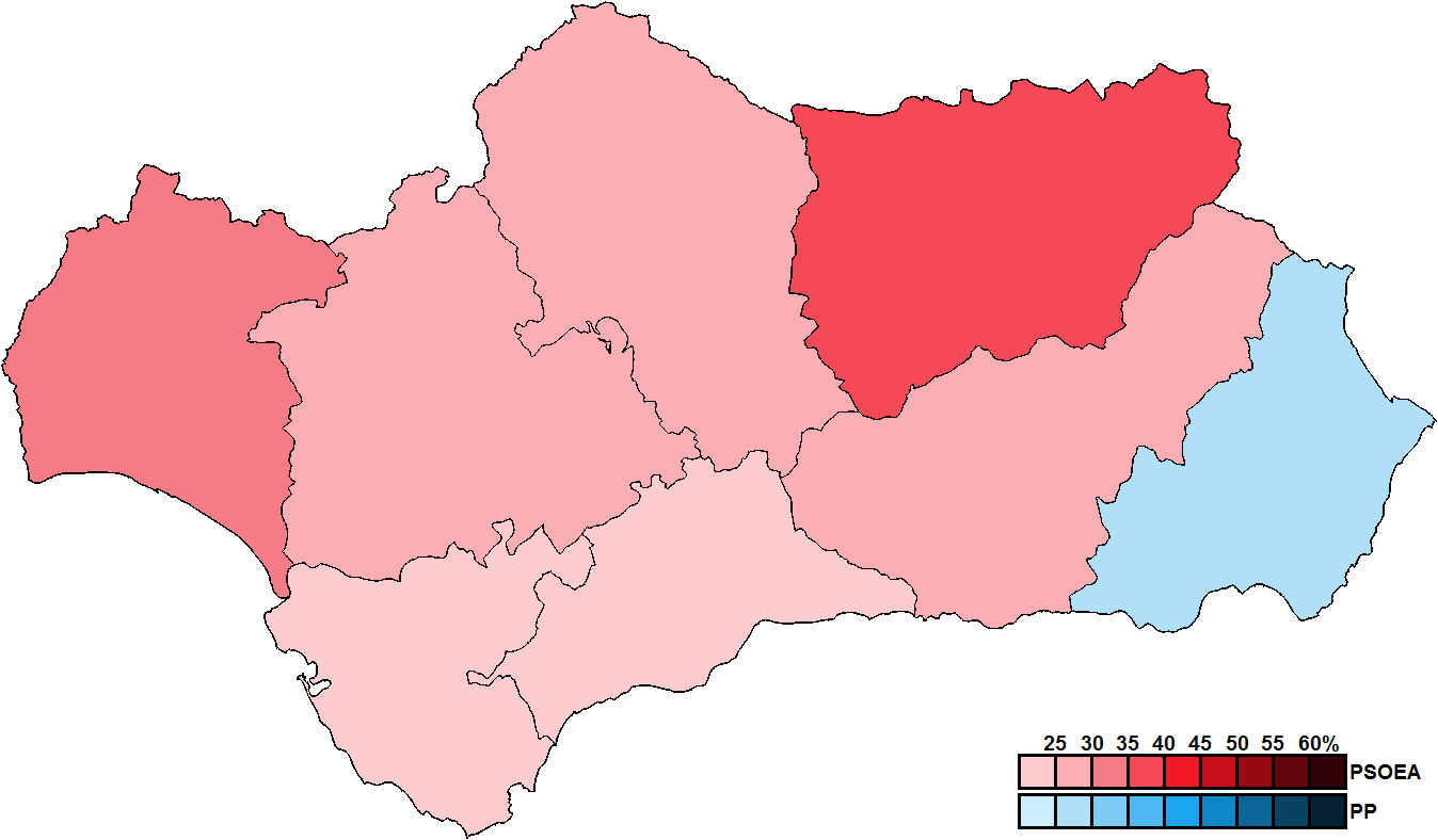 Provincial results for the 2018 Andalusian regional election.